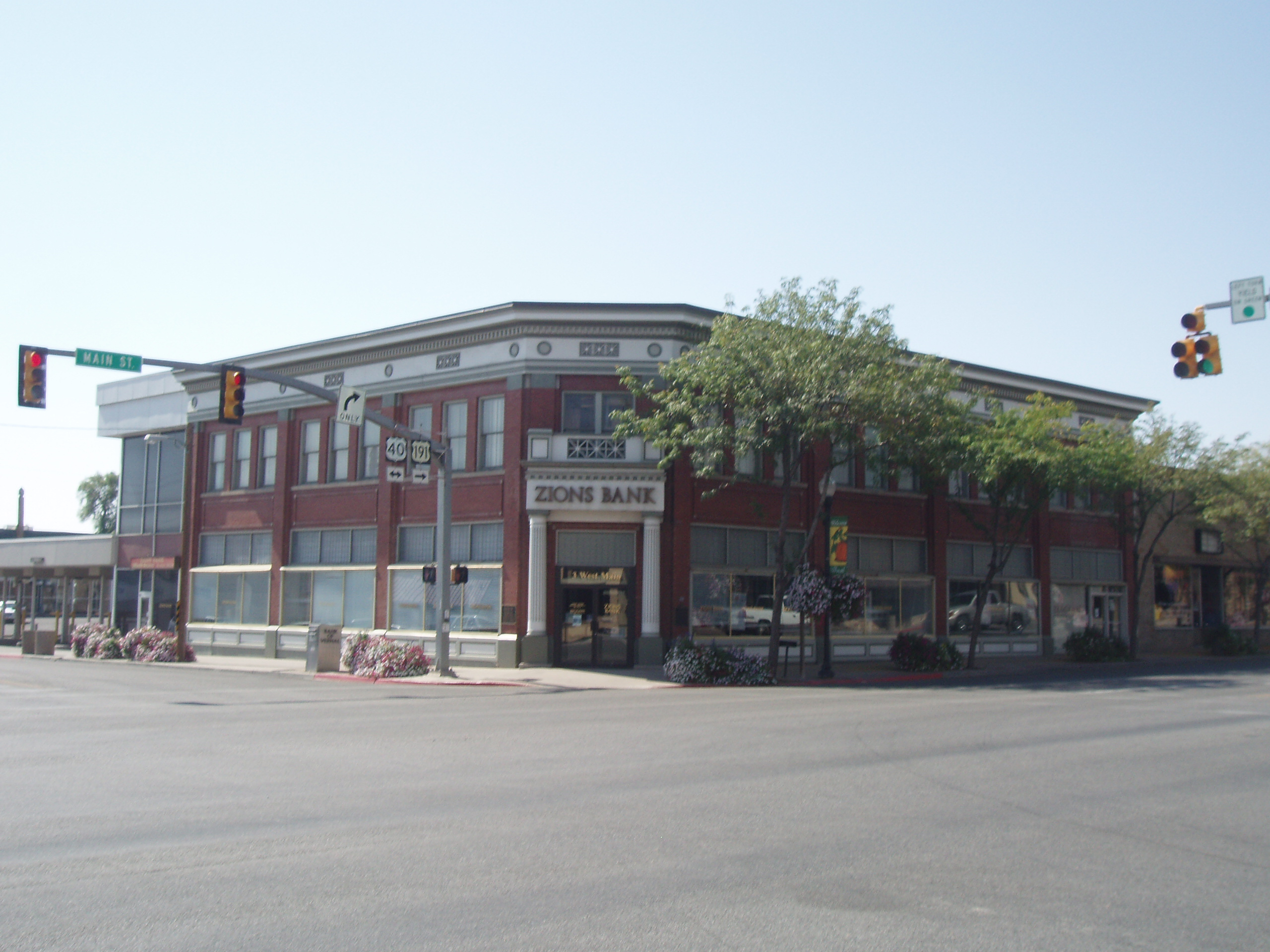 The Bank of Vernal, a historic building in Vernal, Utah, United States, is known as"the bank sent by mail". The bricks for its construction were sent by parcel post to save shipping costs.